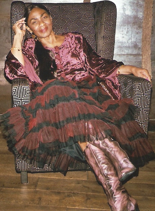 Marcia Barrett (Boney M.), June 2014.